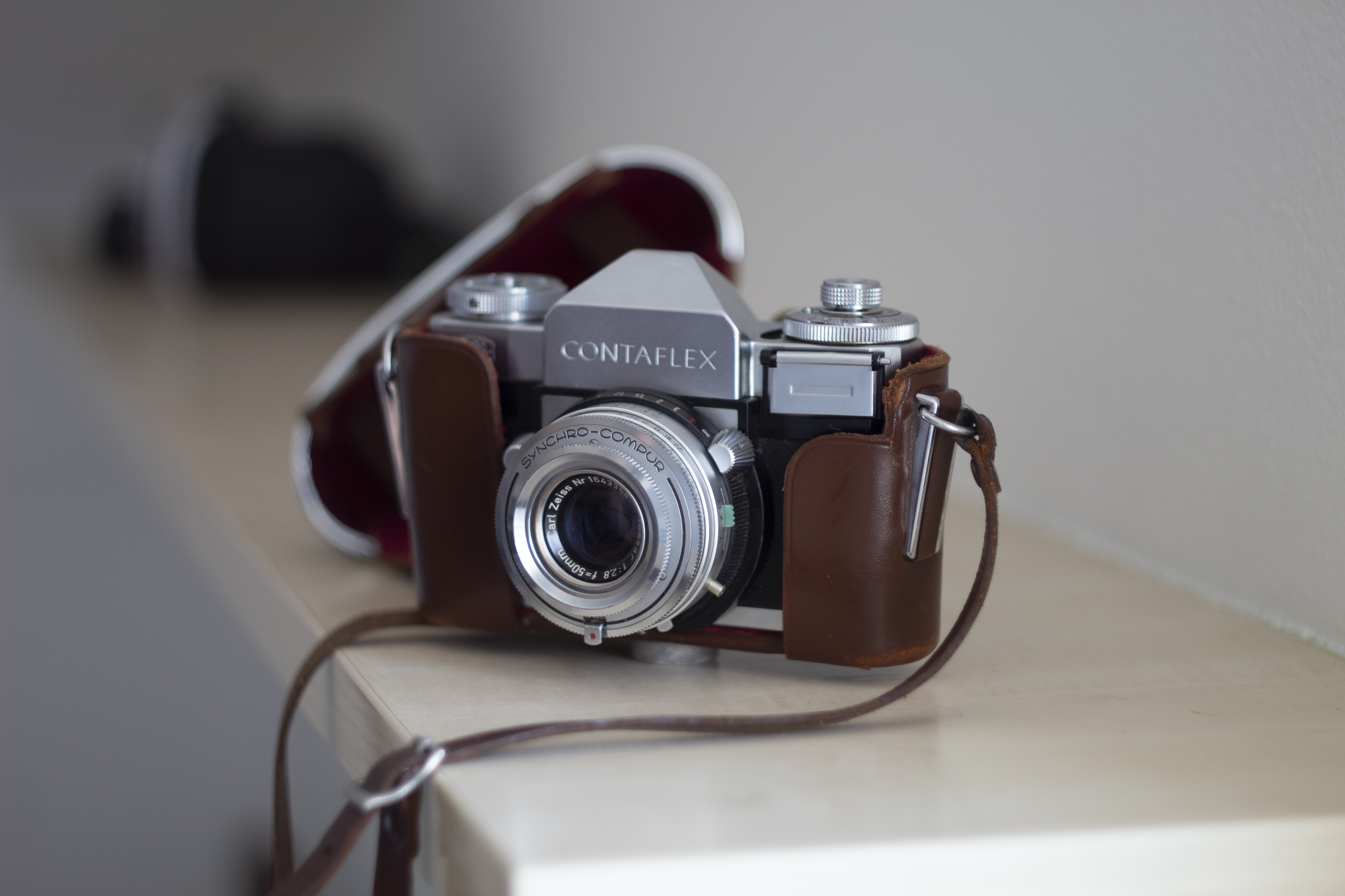 Early Zeiss Ikon Contaflex IV SLR Camera in original case from 1957